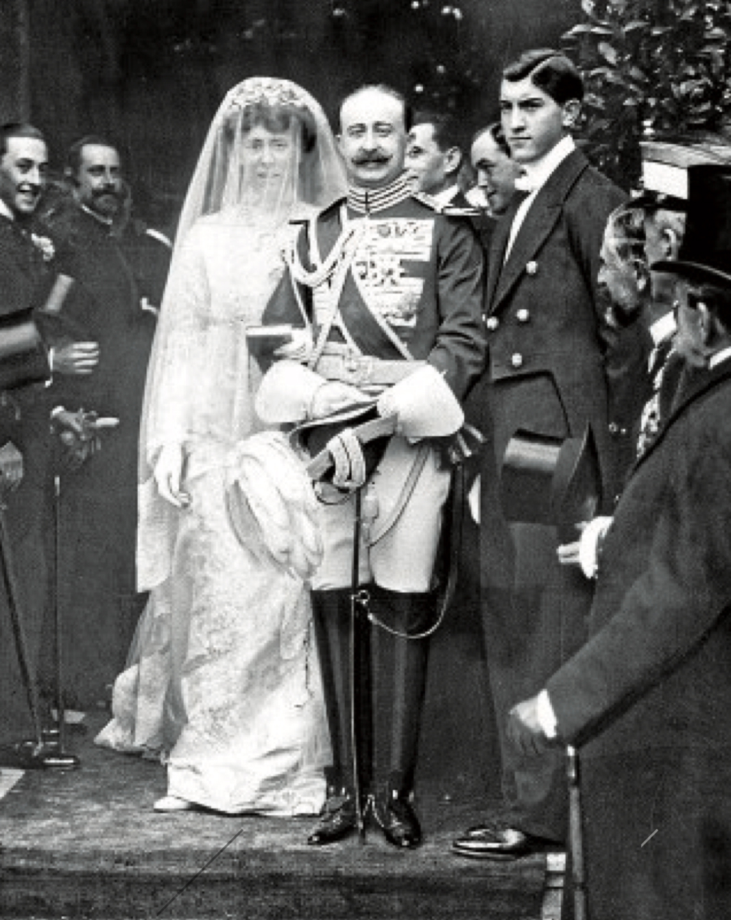 Wedding of Luis Jesús Fernández de Córdoba y Salabert, 17th Duke of Medinaceli, the 6th June 1911.